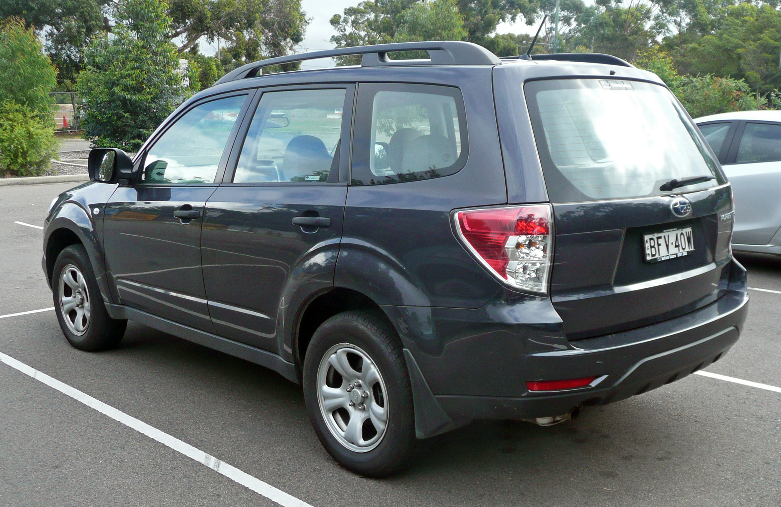 2008 Subaru Forester (SH9 MY09) X wagon. Photographed in Kirrawee, New South Wales, Australia.